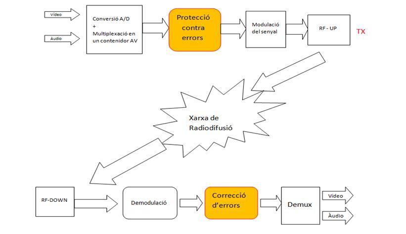 digital radiodifusion diagram